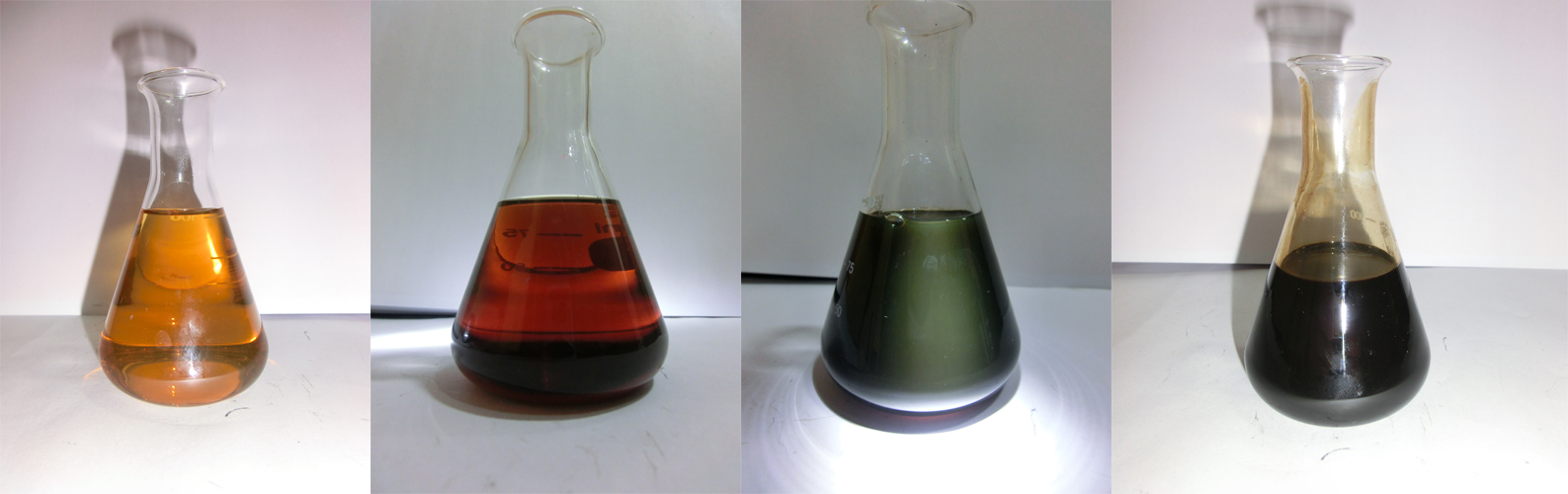 The colour of crude oils can differ between colourless or pale yellow to red, green, or, most common, dark brown to black. From left to right: Light to medium crude oils from the Caucasus, the Middle East, Arabia and France.